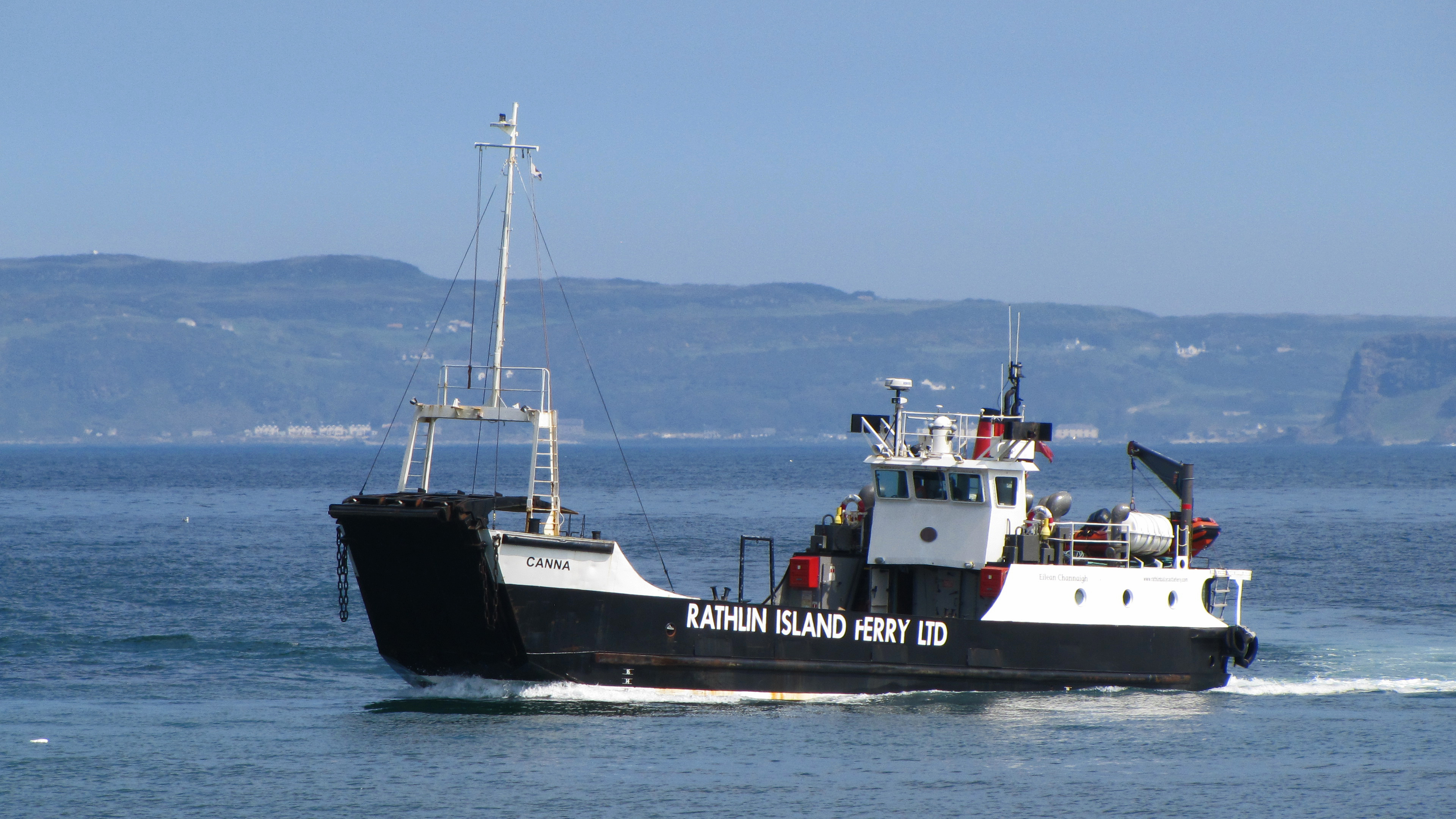 Rathlin Island ferry approaching Ballycastle Harbour, with Church Bay, Rathlin, visible in the background